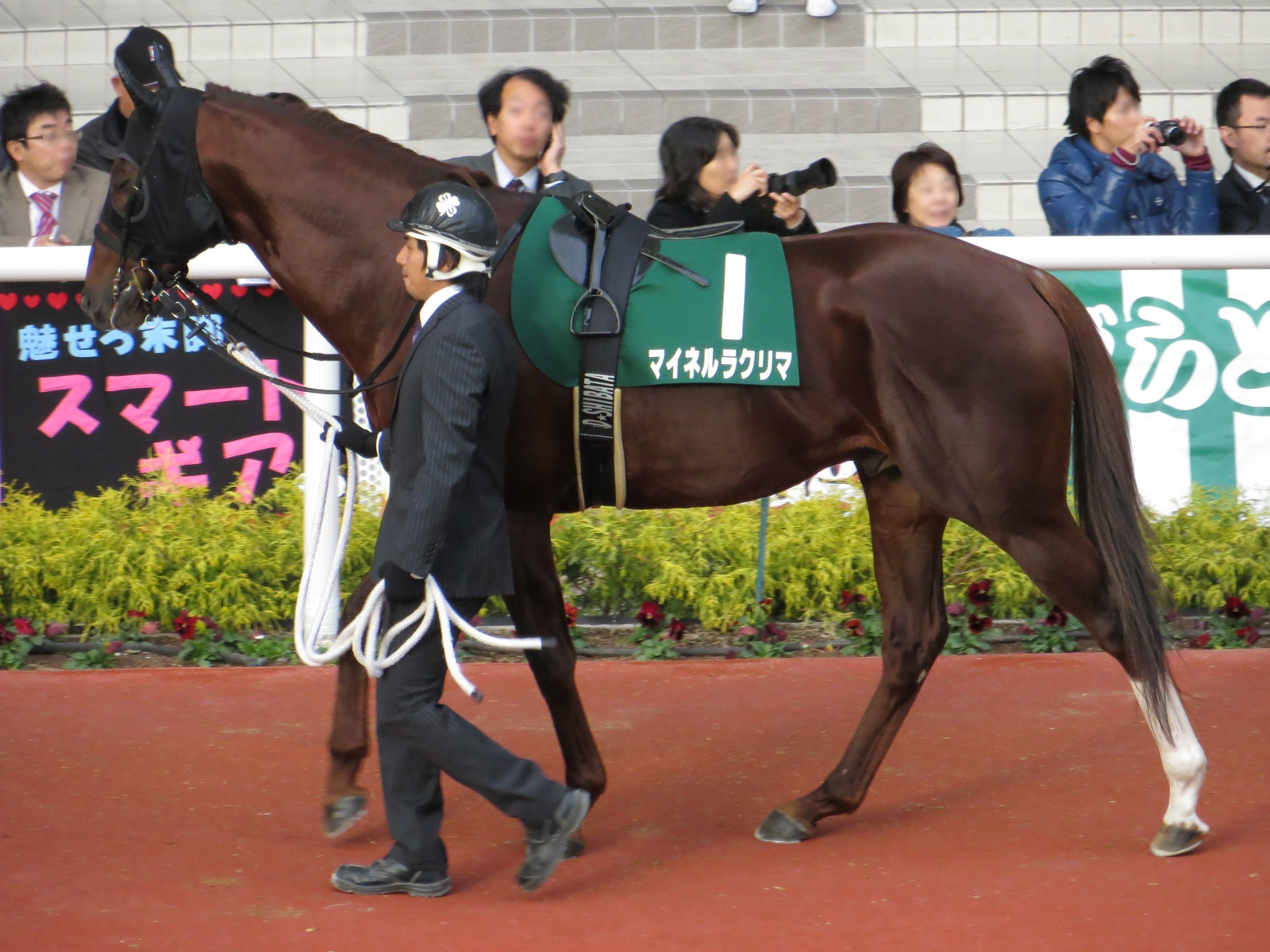 Meiner Lacrima (Racehorse of Japan).